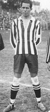 Paraguayan captain Manuel Fleitas Solich, in the 1924 South-American Championship